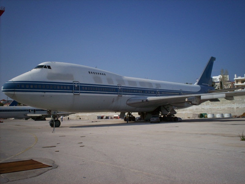 This impressive flight machine was one of the first 747s ever delivered in the history of aviation. It once carried hundreds, from common people, immigrants, to politicians and celebrities across the oceans to the US and Australia, linking our country with the outside world. it now stands in a corner of the runway with its engines removed and incapable of flying evermore. Too sad that it is exposed to various vandals, either making graffiti on it or just damaging the fuselage and the landing equipment.